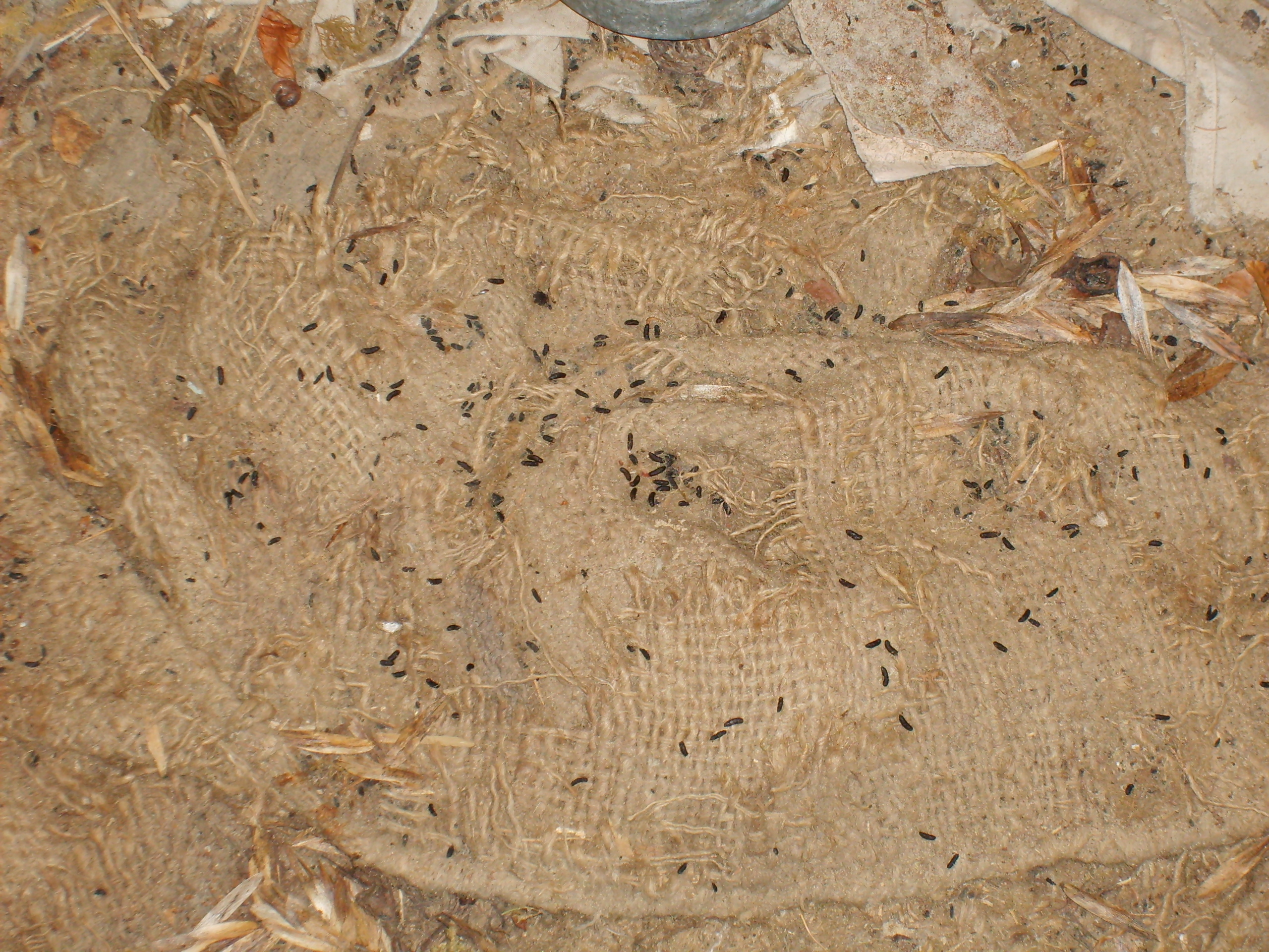 Droppings likely to be from Apodemus sylvaticus in a hut near a forest. The Photo was shot in Interlaken, Switzerland.